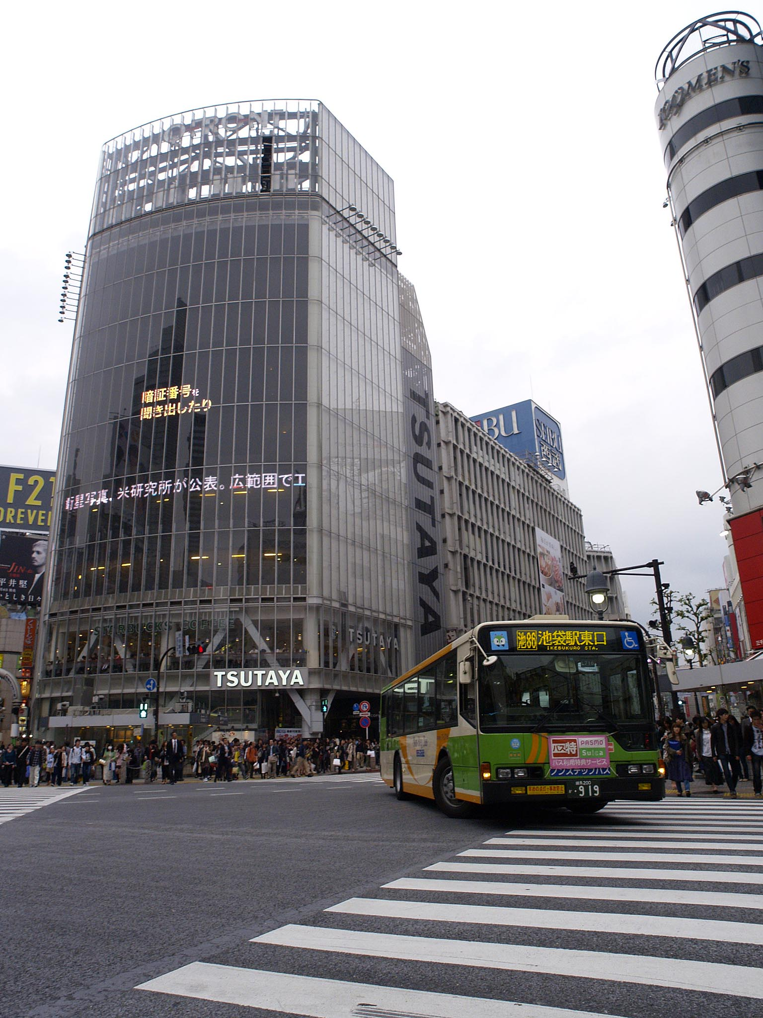 Toei Bus "Ike 86" route in Shibuya. Model: Mitsubishi Fuso Aero Star KL-MP37JK License plate: TKN200 KA-919